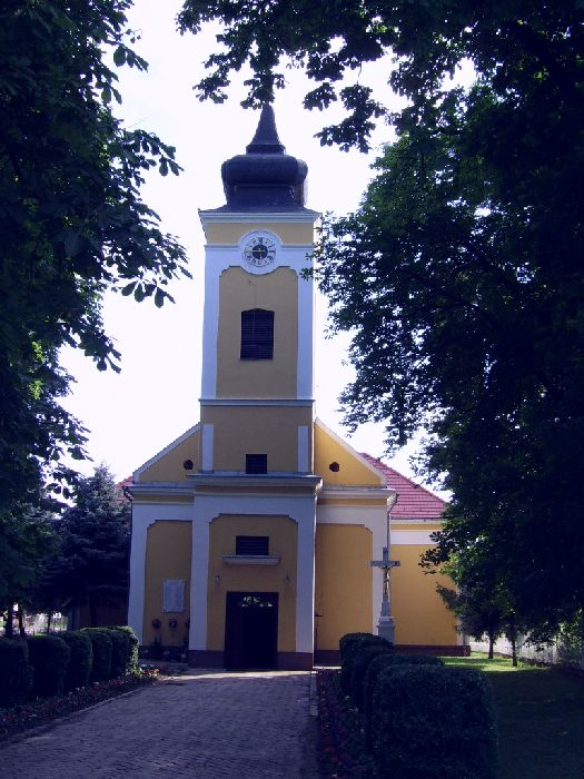 roman catholic church in Tatárszentgyörgy